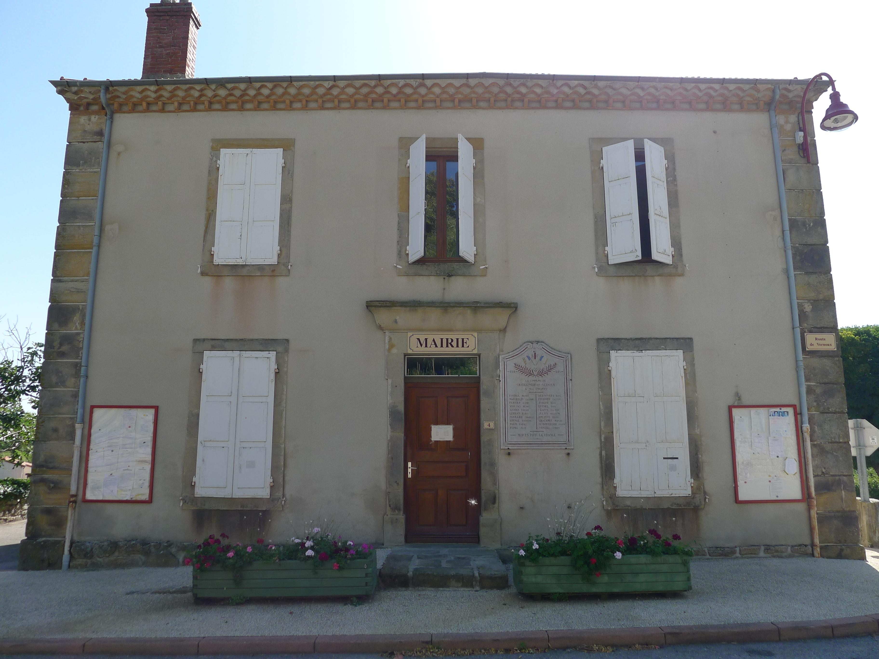 Town hall of Châteauneuf-de-Vernoux - Ardèche - France